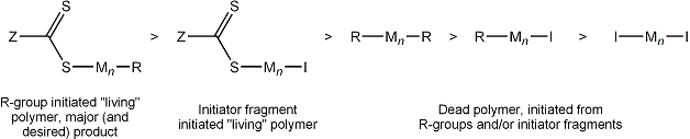 Relative and qualitative levels of the products of a RAFT polymerisation